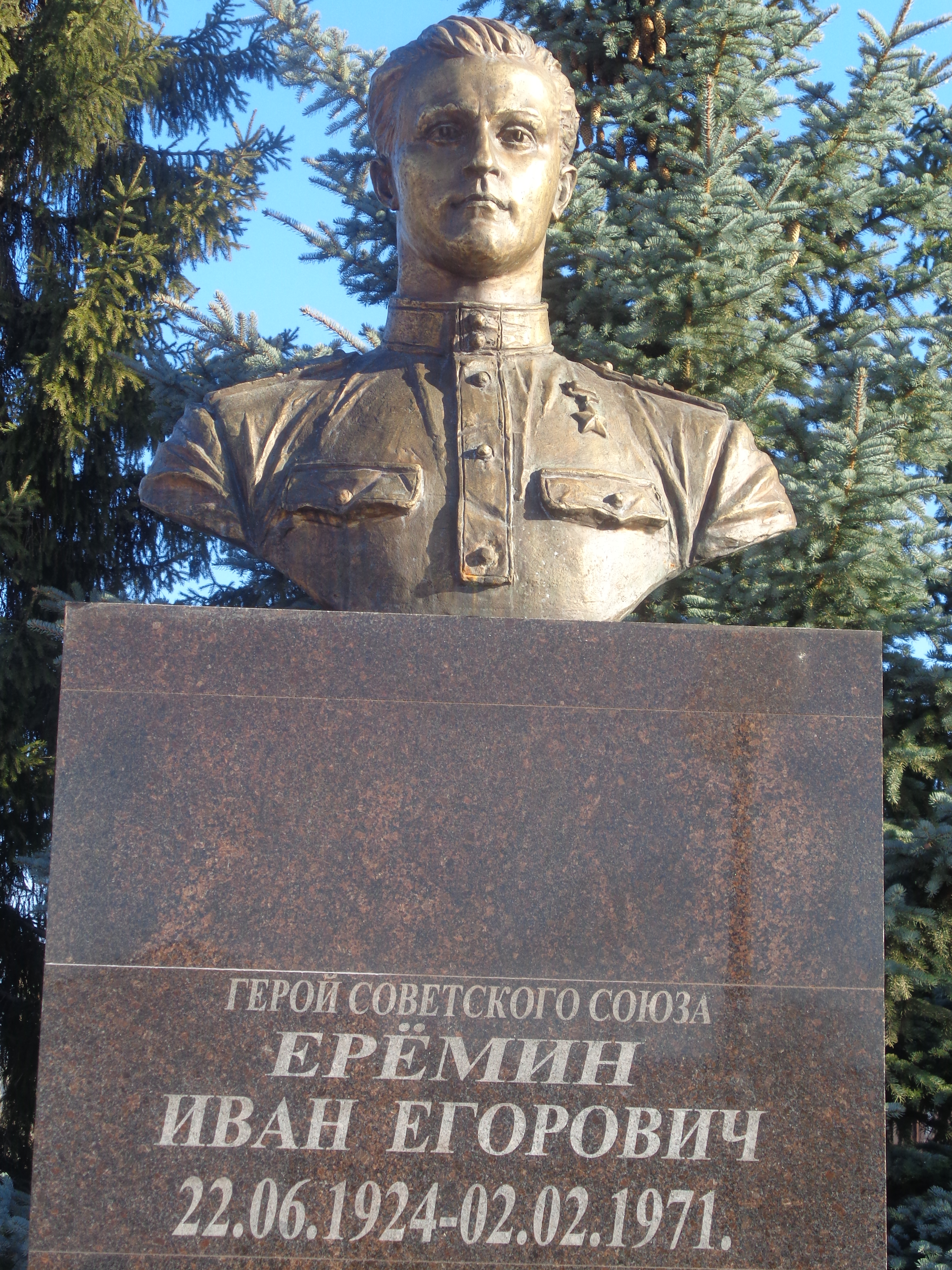 Monument to Hero of the Soviet Union Yeremin Ivan Yegorovich